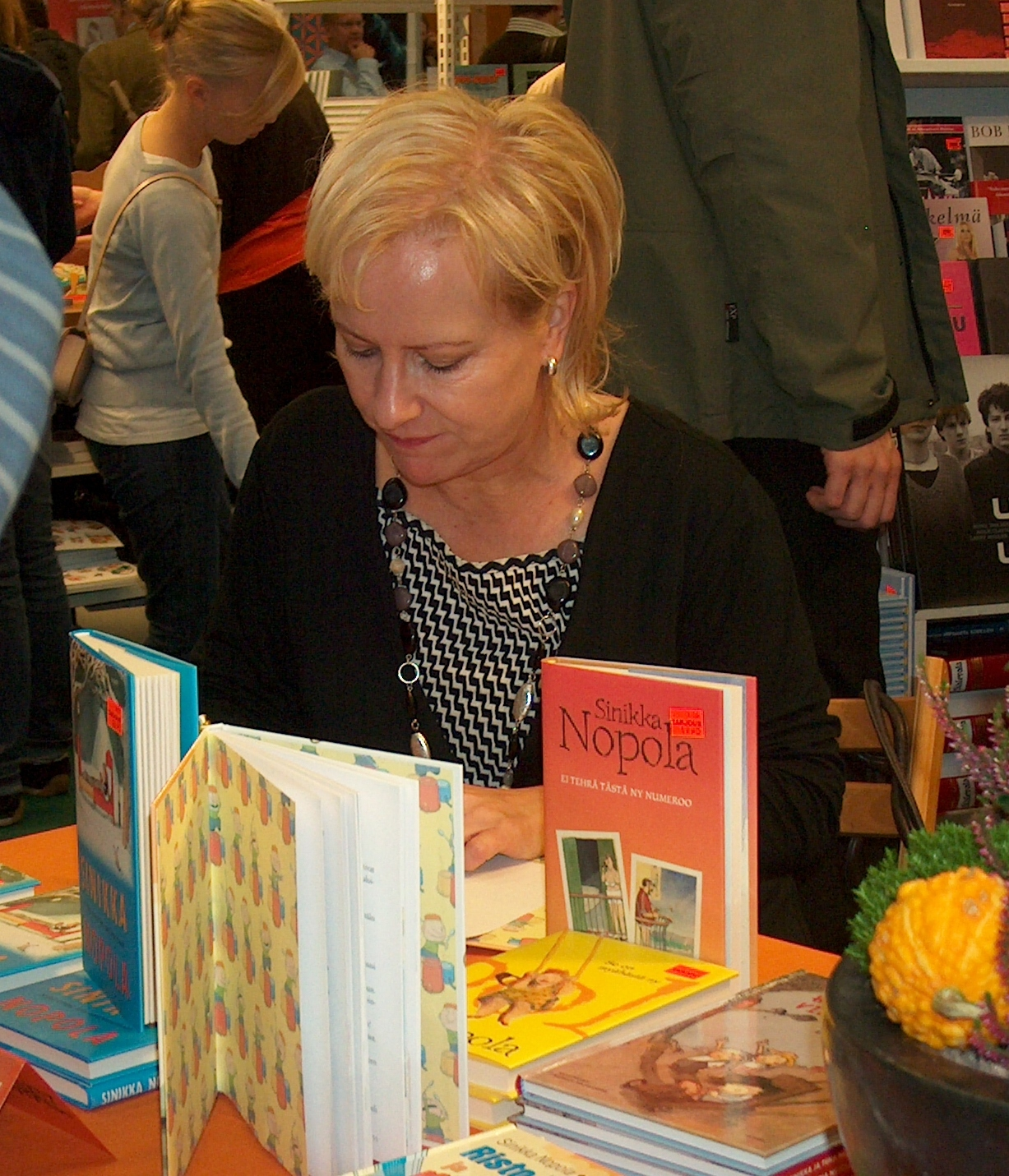 Sinikka Nopola, a Finnish writer at The Book Fair in Turku 2007